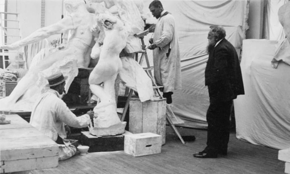 French sculptor Auguste Rodin (1840-1917) observing work on the Monument to Victor Hugo at the studio of his assistant Henri Lebossé in 1896.